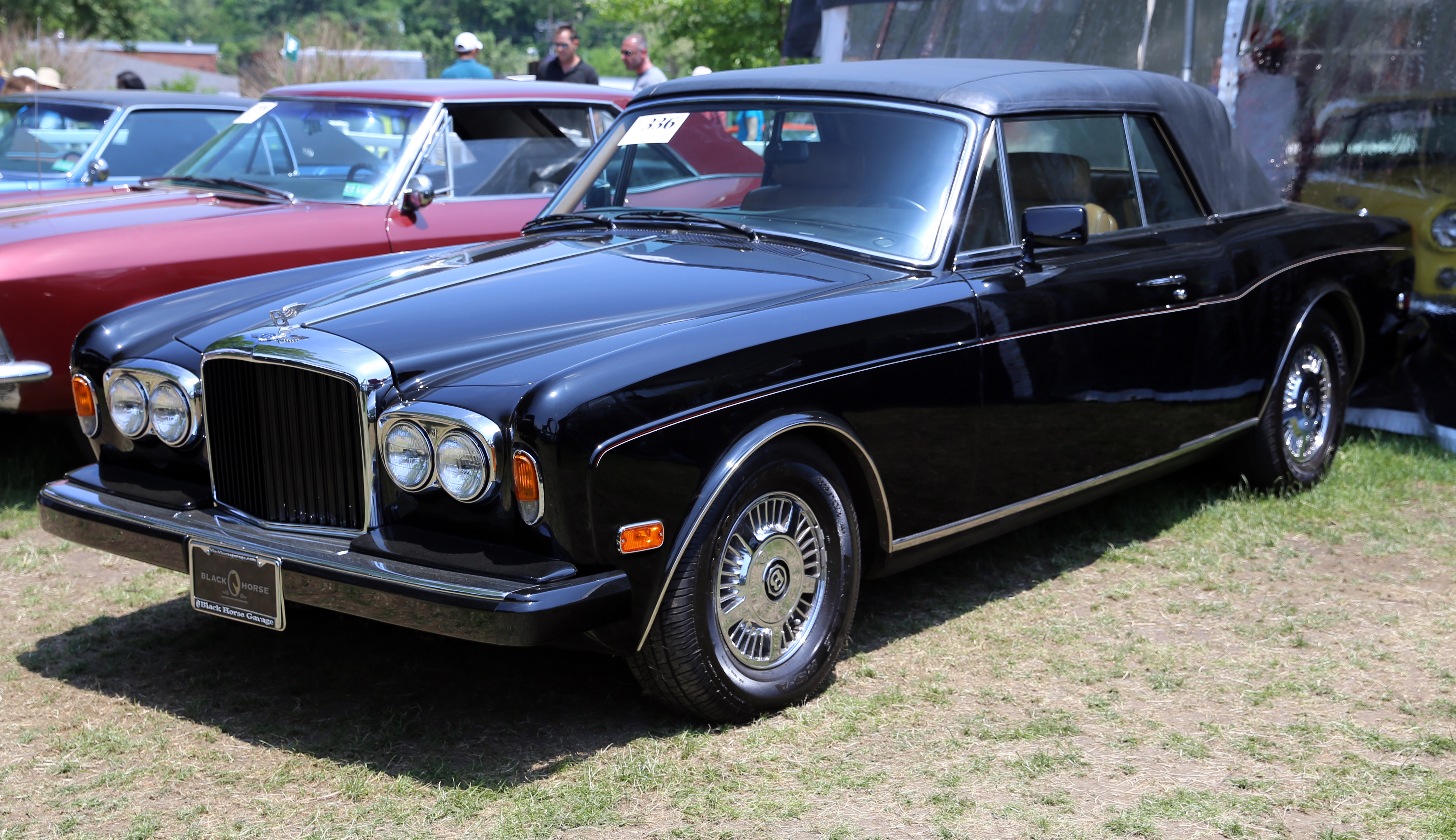 1990 Bentley Continental (s/n SCBZD02DXLCX30161) at the Bonhams auction attached to the 2013 Greenwich Concours d'Elegance.